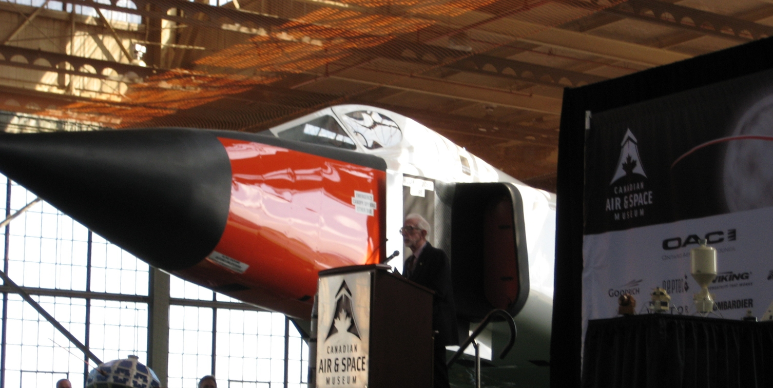 Picture of Jim Floyd receiving the first Canadian Air & Space Pioneer Award.